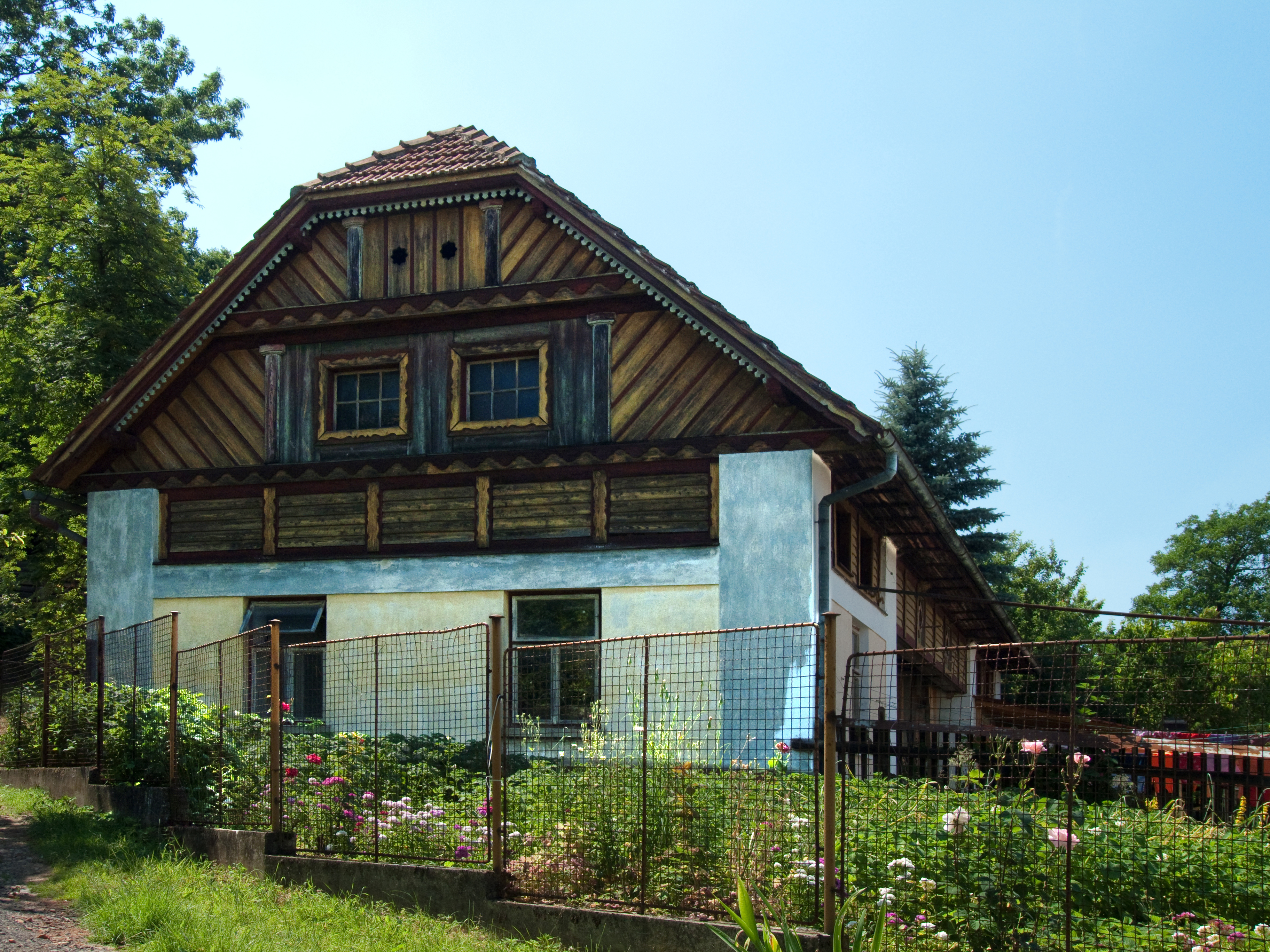 House No 12 (south) in the village of Pavlovice, Benešov district, Czech Republic